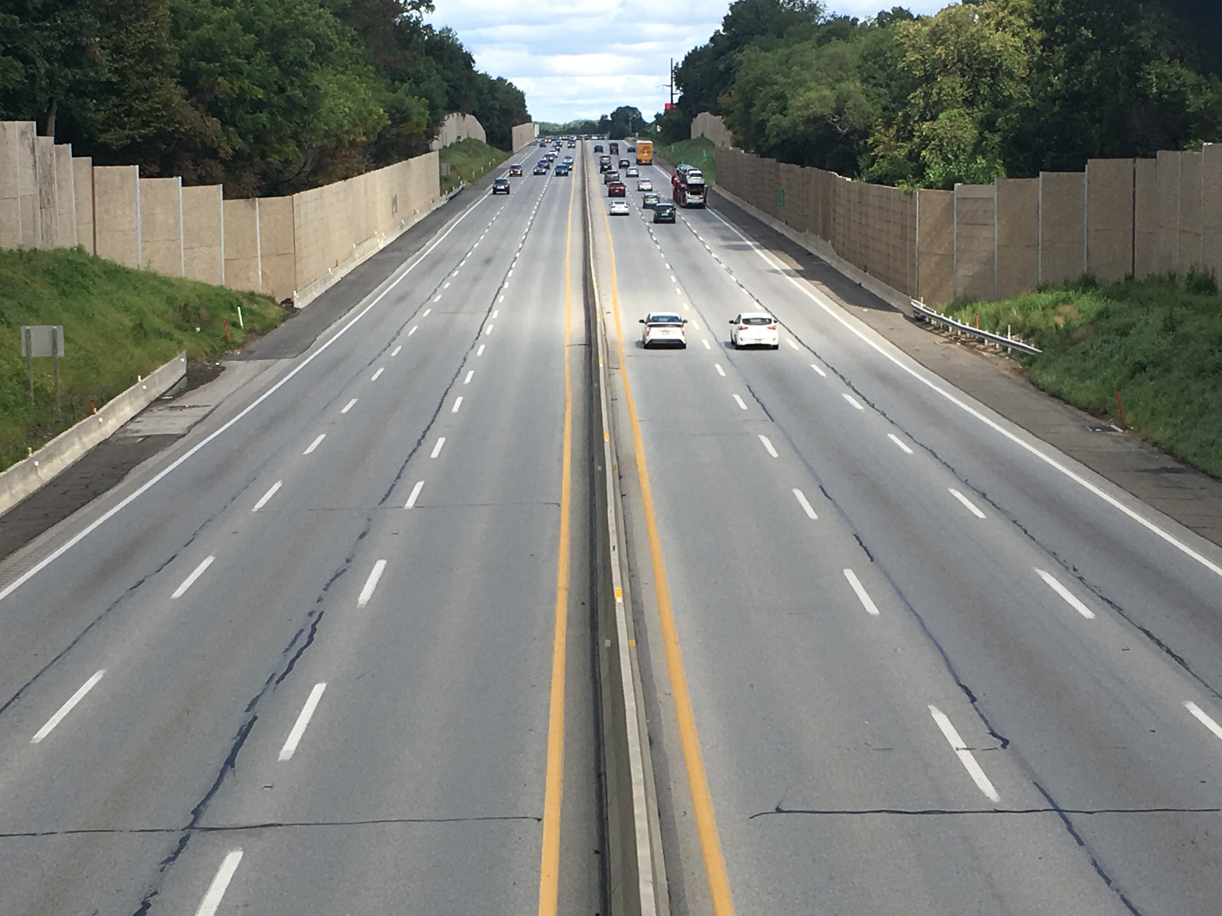 Westbound Pennsylvania Turnpike (Interstate 276) from the Gravel Hill Road overpass in Upper Southampton Township, Pennsylvania